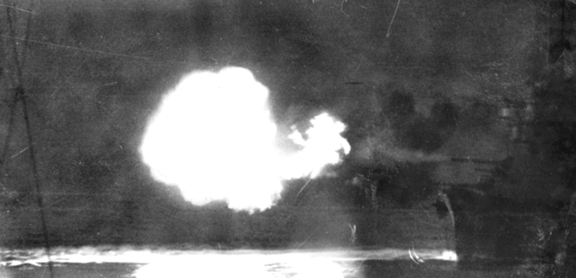 The U.S. Navy New Orleans-class heavy cruiser USS Vincennes (CA-44) bombards Guadalcanal Island at dawn on 7 August 1942, before US Marines invaded the island.